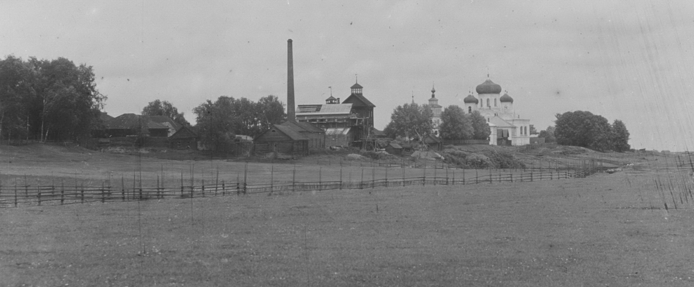 Mologa